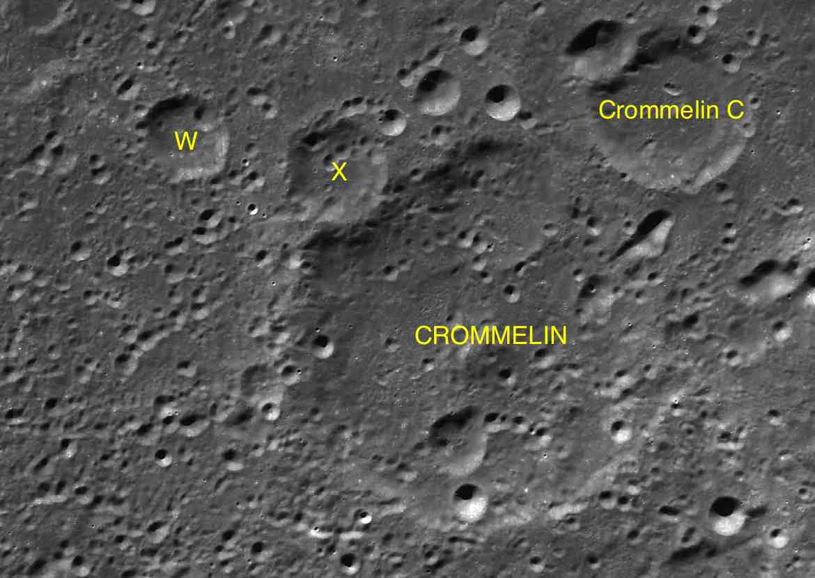 Part of the chart LAC-142 used for the presentation